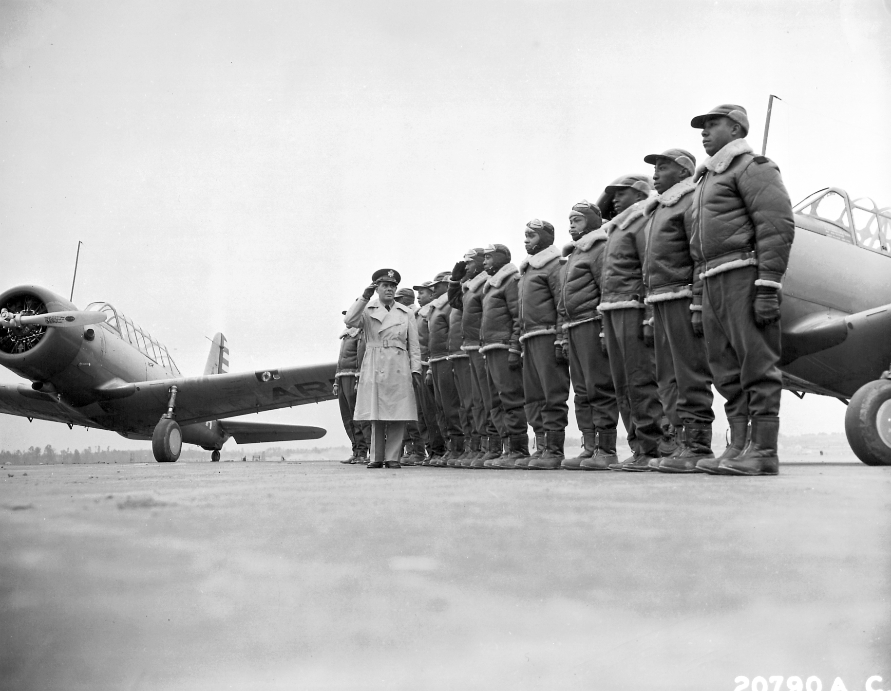 Maj James A. Ellison reviews first class of Tuskeegee Airmen, returning the salute of Mac Ross, one of the first graduates. A BT-13 is visible on the left.